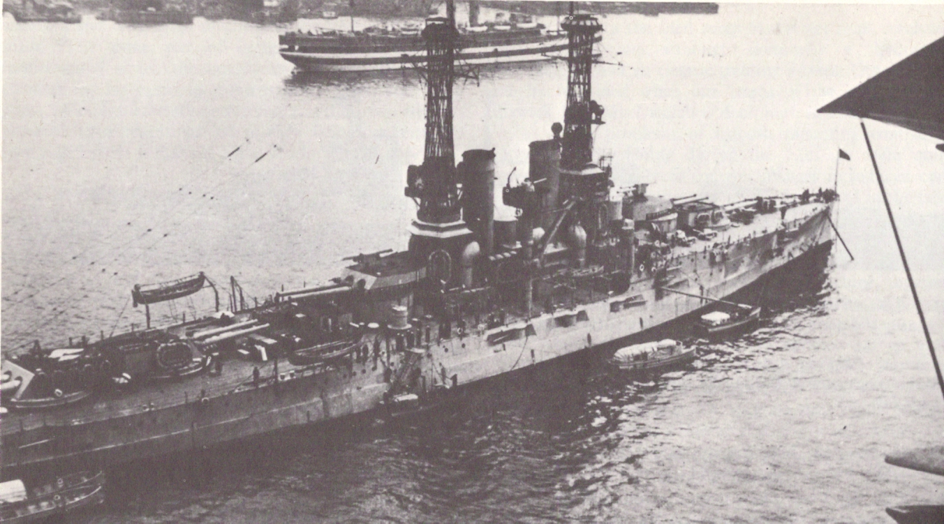 The United States Navy battleship photographed by a passing biplane; the airplanes wingtips are visible at right.